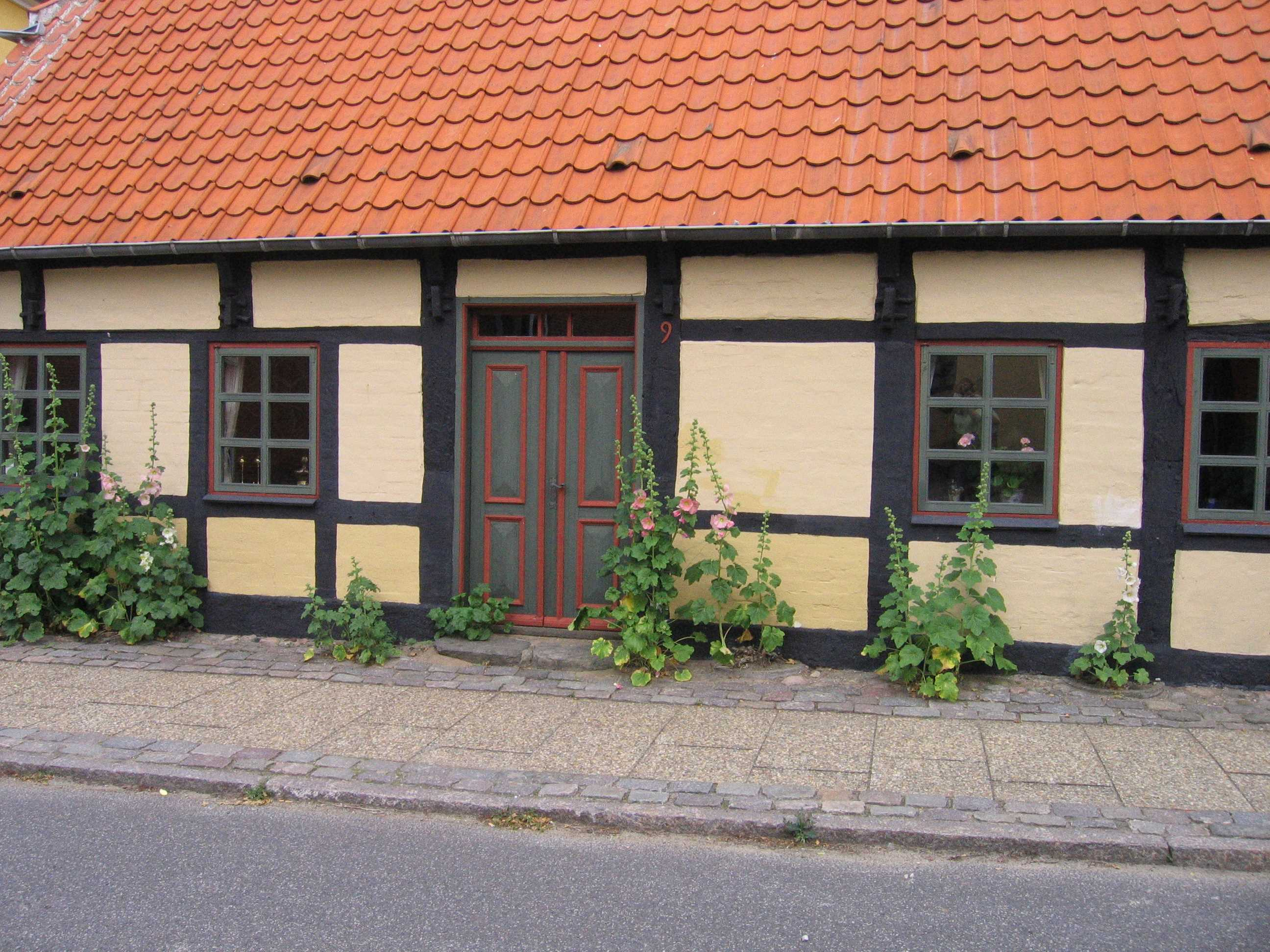 typical house of the fiskerklyngen